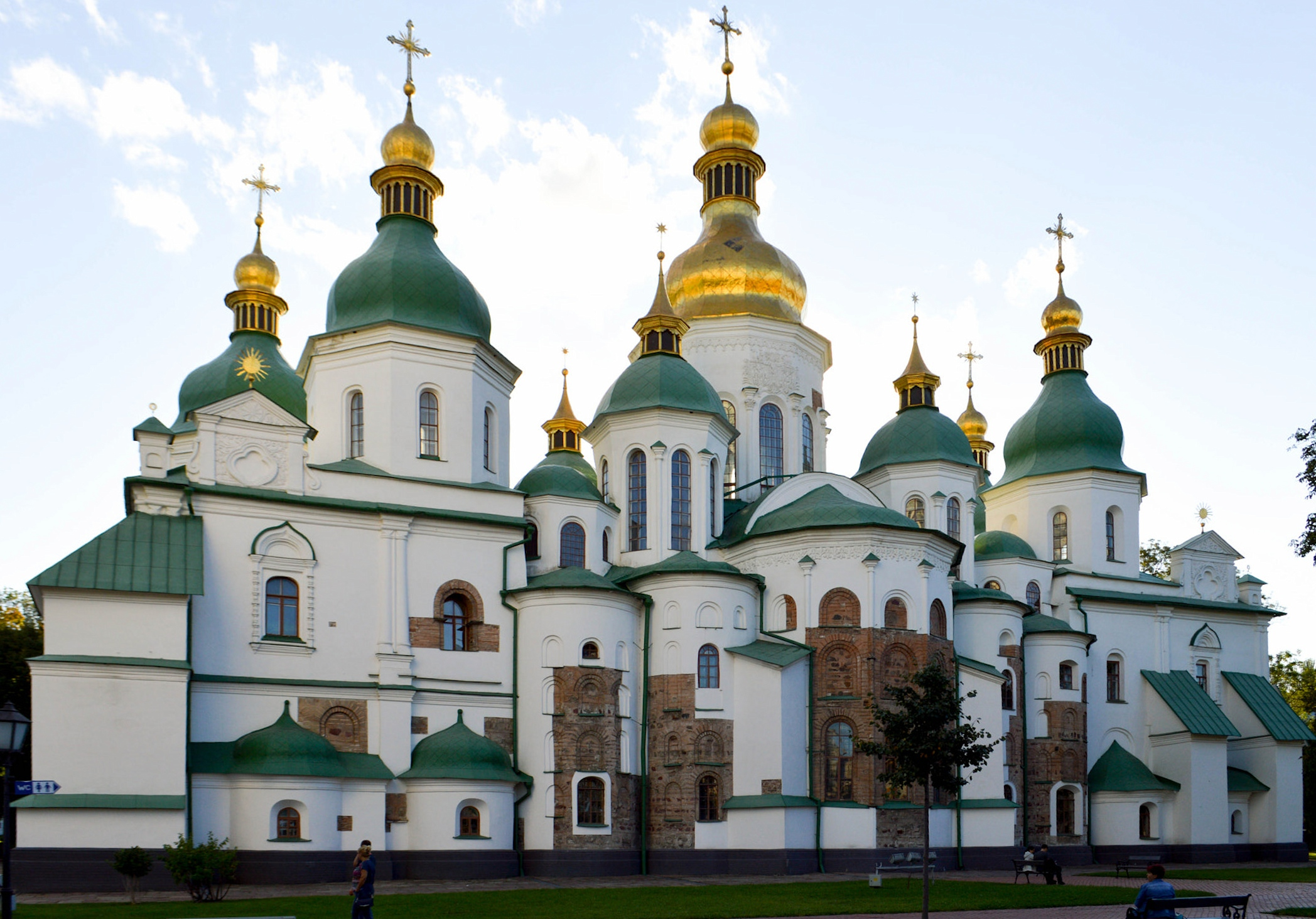 500px provided description: Cathedral Of St Sophia [#church ,#cathedral ,#eastern orthodox ,#Ukraine ,#Kyiv ,#Kiev ,#St. Sophia]